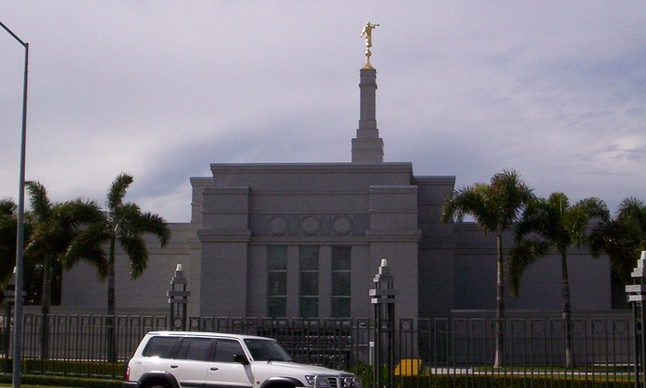 The Brisbane Australia Temple is the 115th operating temple of The Church of Jesus Christ of Latter-day Saints.